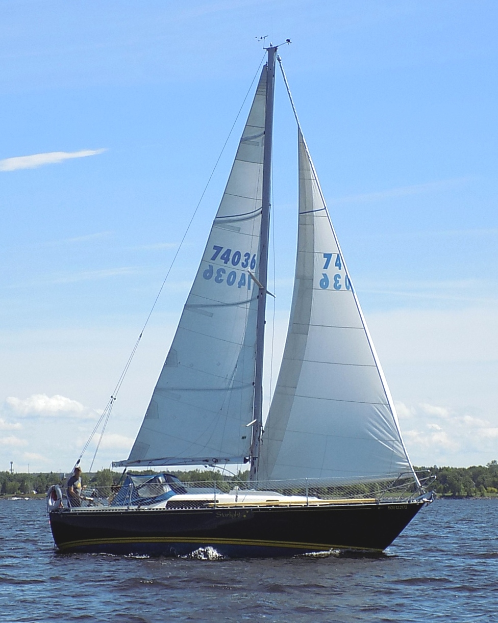 A C&C 30 Mark I sailboat named Starlight.